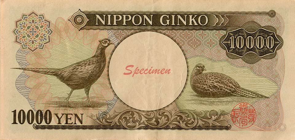 Series D 10000 Yen Bank of Japan note. A pair of Japanese pheasants (Phasianus versicolor). First issued in 1984. Issue suspended in 2007. Legal tender. 160mm x 76mm